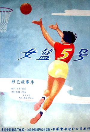 Film poster for Woman Basketball Player No. 5 (1957)